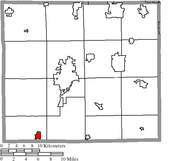 Map of the municipal and township boundaries of Wayne County, Ohio, United States, as of the 2000 census, with the location of the village of Shreve highlighted. Township borders are shown only in unincorporated areas in order to differentiate incorporated and unincorporated areas more clearly.